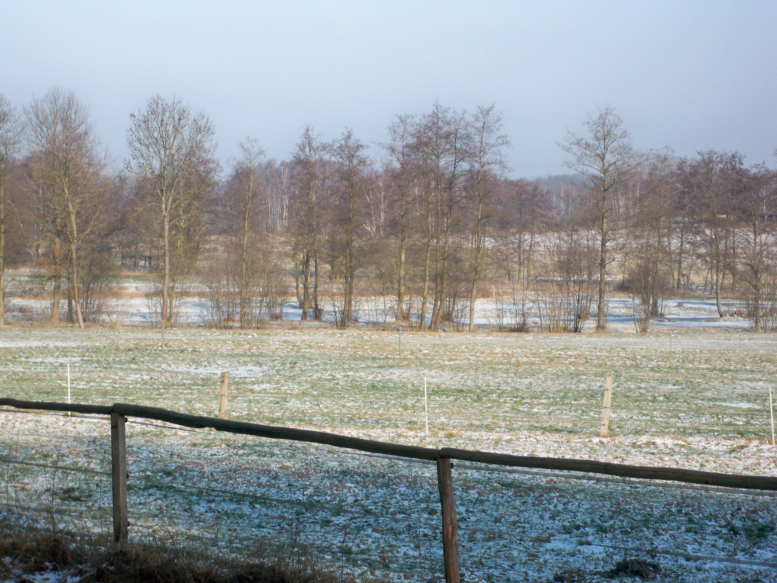 Steimke (Klötze), Saxony-Anhalt, nature reserve "Ohreaue"